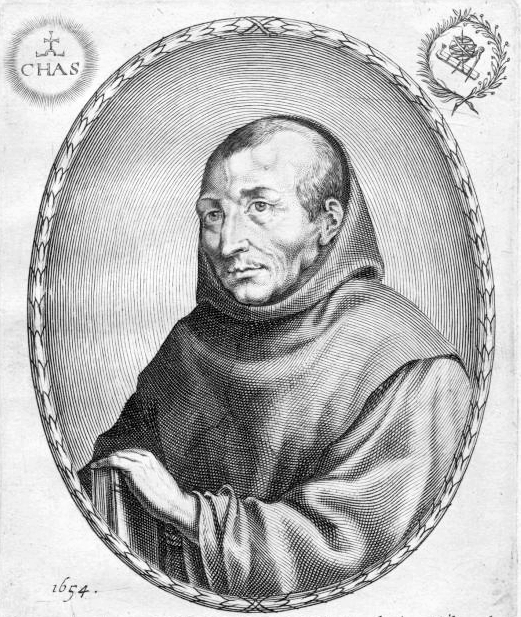 French mathematician Marin Mersenne (1588-1648) by Balthasar Moncornet (1600-1668).